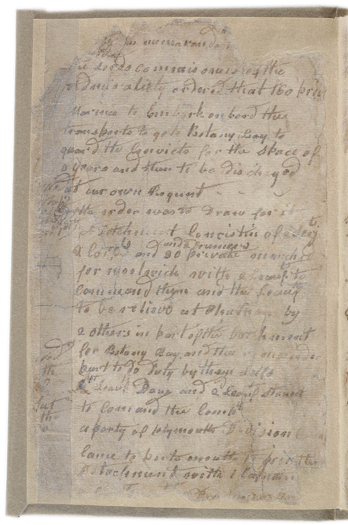 [untitled record]